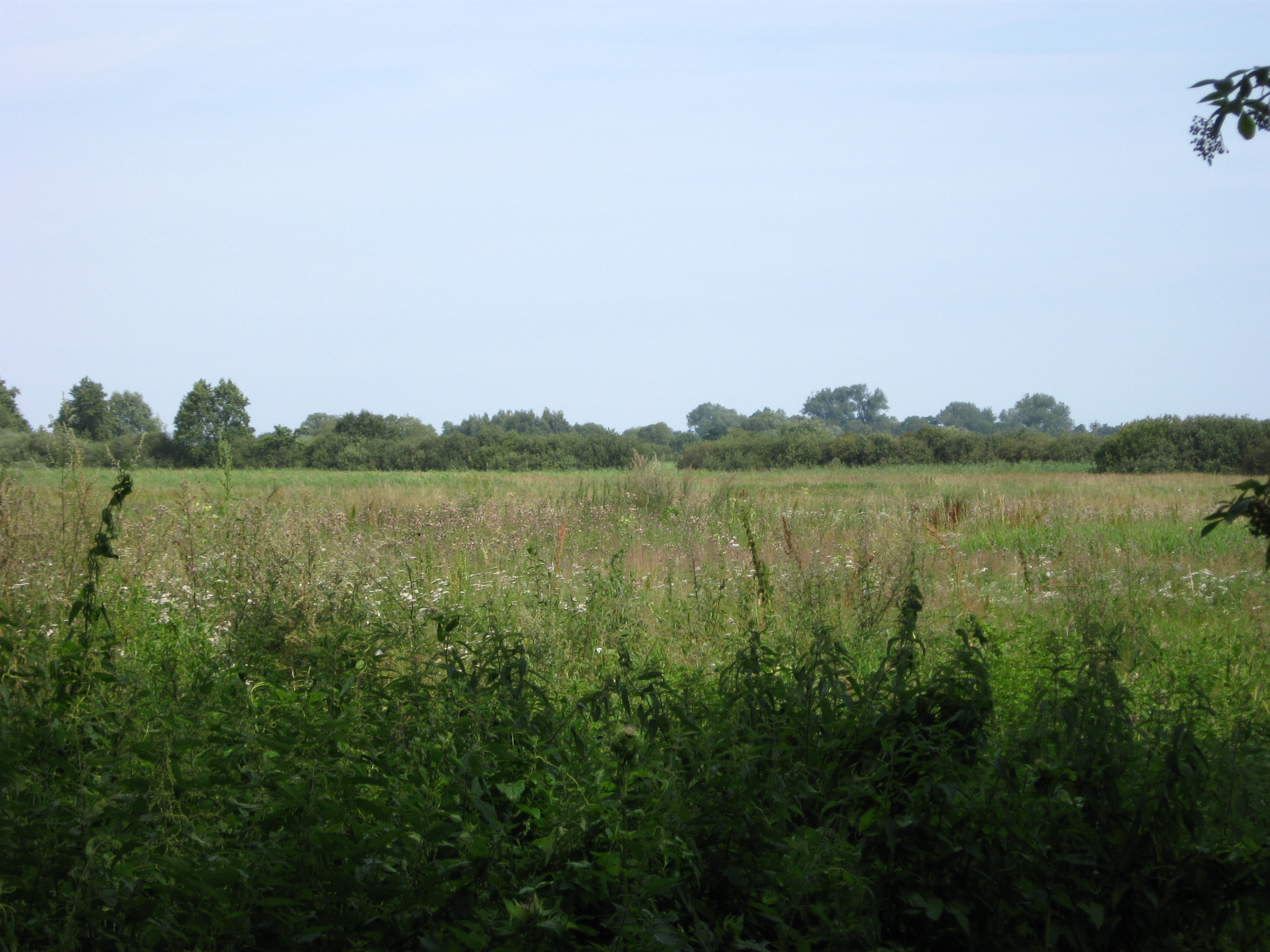 Photo meadow Trzebuskie Łęgi.